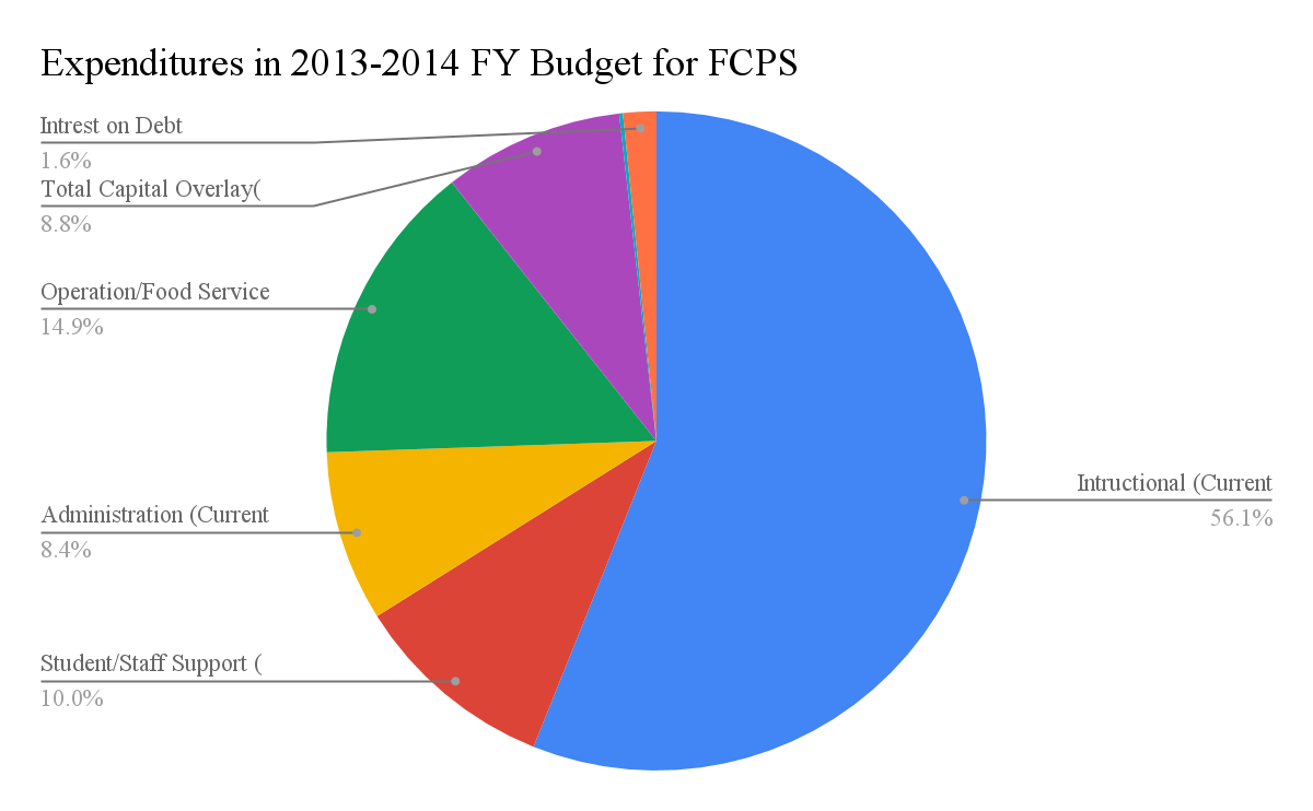 Expednitures Budget for FCPS 2013-2014 FY